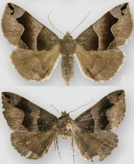 Neadysgonia telma female (top) male (bottom)